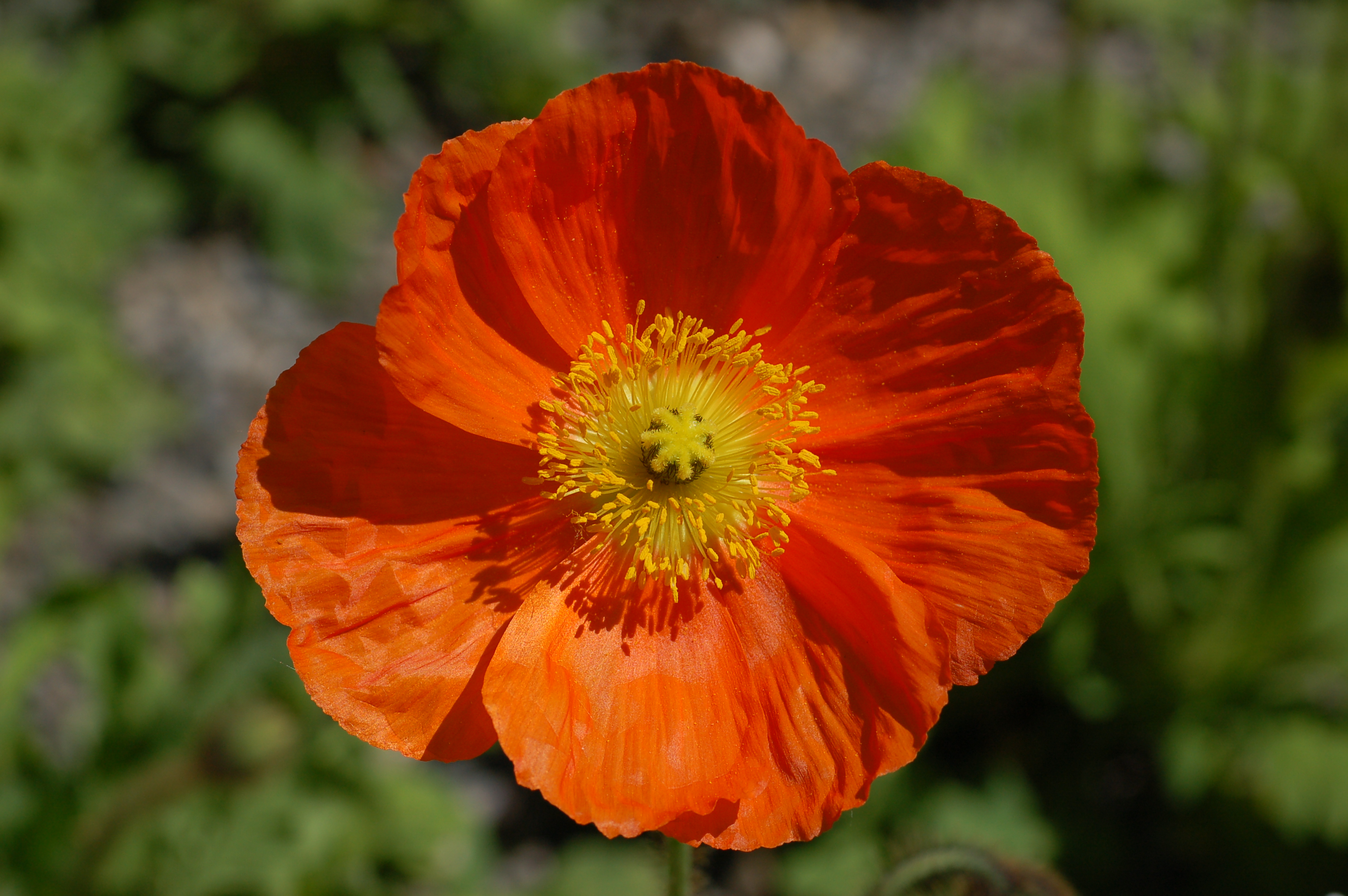 Picture of an orange Iceland Poppyen (Papaver nudicaule en 'Champagne Bubbles') flower. Photo taken in the Teacup Garden at the Chanticleer Garden where the species was identified.